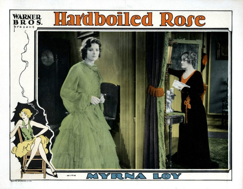 Lobby card for the American romantic drama film Hardboiled Rose (1929).